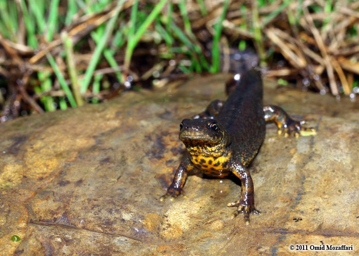 Triturus karelinii (southern crested newt) male from Lahijan, Gilan, Islamic Republic of Iran